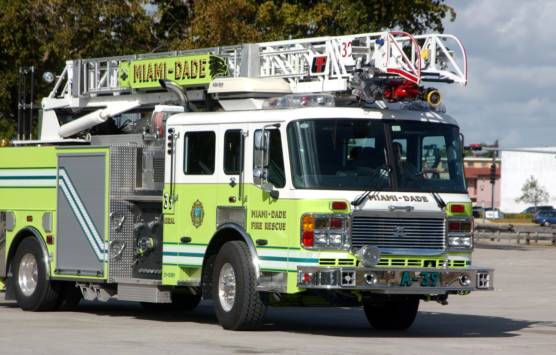 Fire truck belonging to Miami-Dade Fire Rescue, Miami-Dade County, Florida, USA